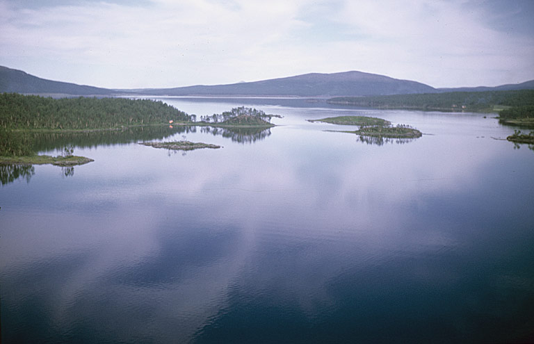 Lake Abelvattnet in Swedish Lapland 1967, before the raising of the water-level for hydroelectric purposes.